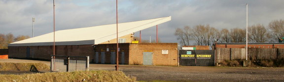 Hayley Stadium, Newport Speedway stadium on Plover Close, Queensway Meadows, Newport. Home of Newport Wasps and Newport Hornets speedway teams. Newport Hornets, who compete in the National League, are effectively the reserve team for Premier League Newport Wasps and provide the club with a new source of riding talent for the future.